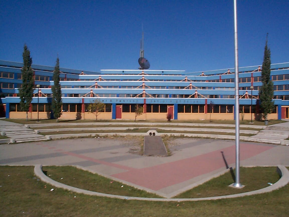 Lester B. Pearson High School is a public senior high school operated by the Calgary Board of Education. Its address is 3020 - 52 Street N.E., Calgary, Alberta, Canada, T1Y 5P4.